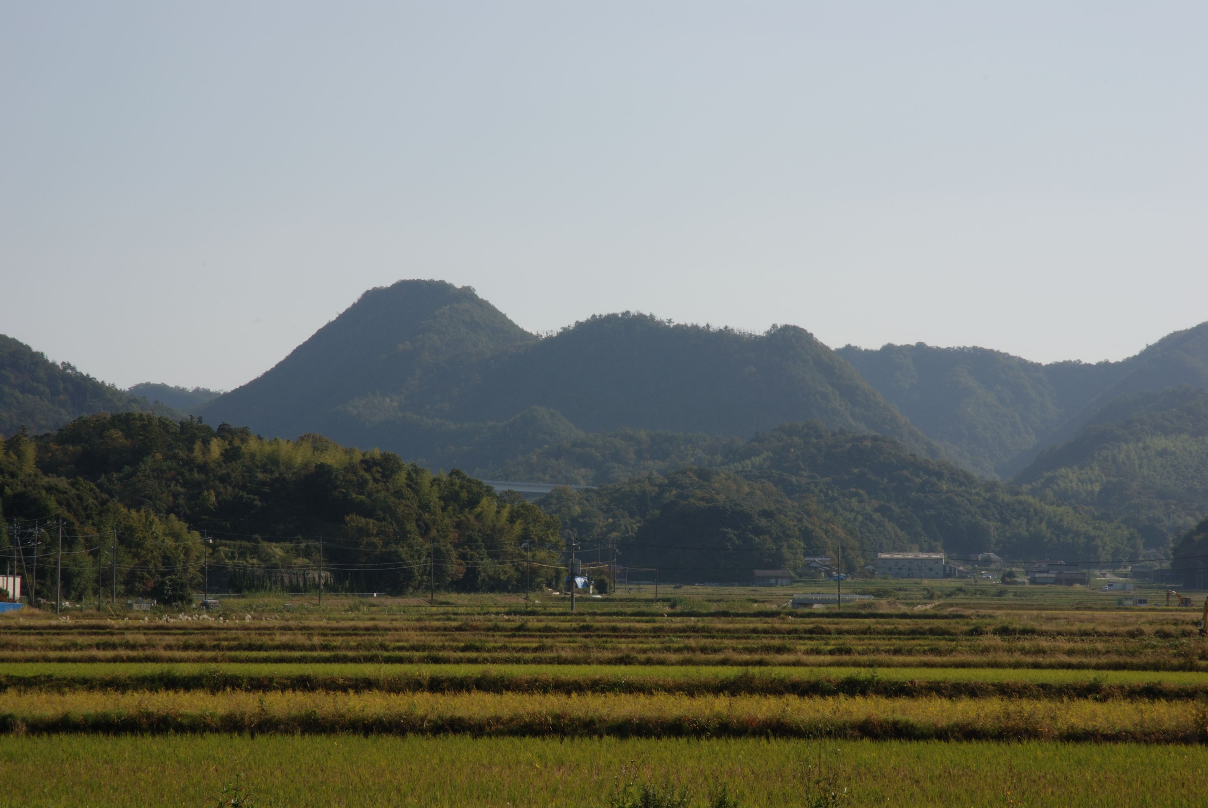 Takase Castle (Mount Takase) in Hikawacho, Izumo, Shimane prefecture